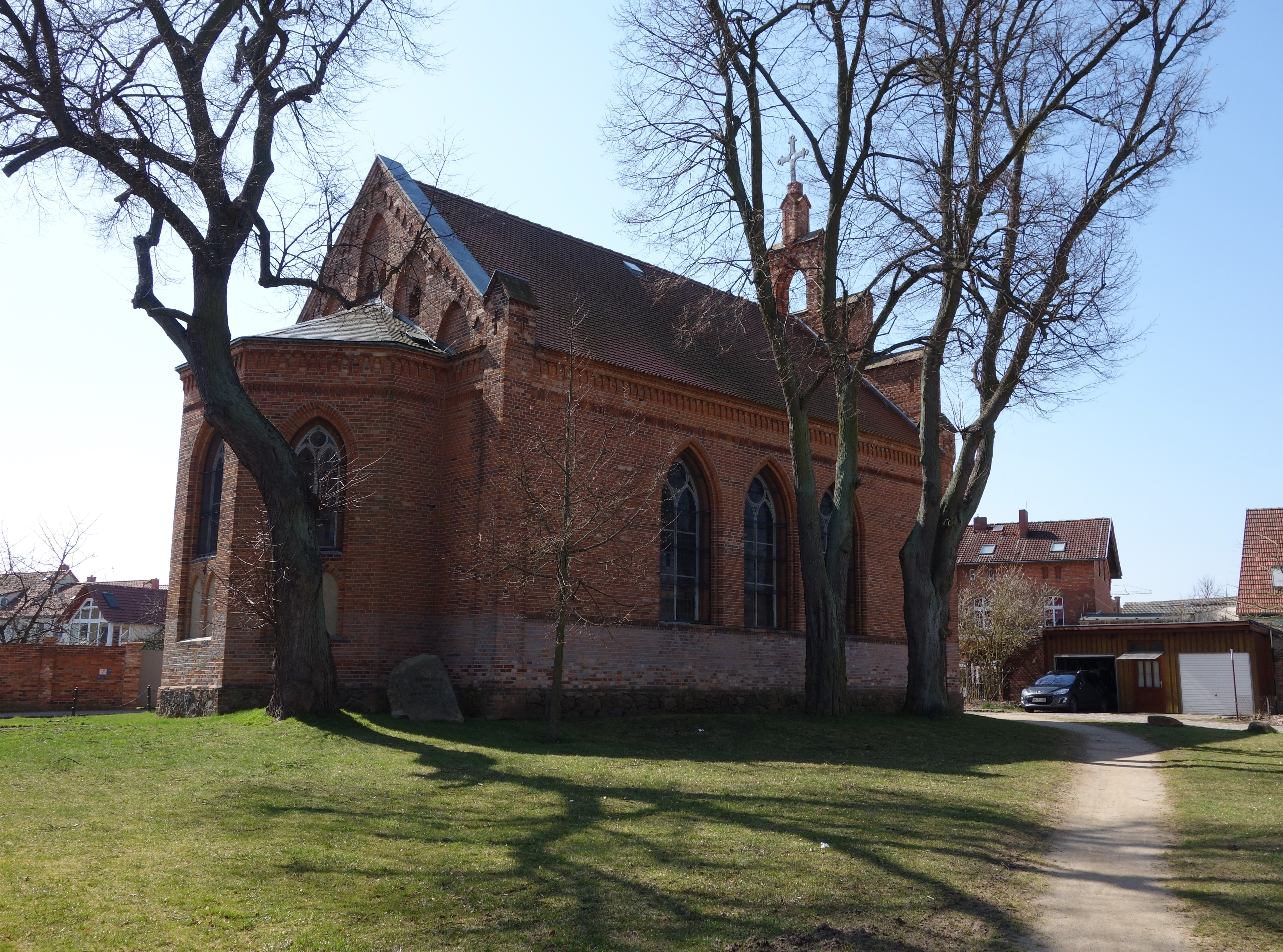 North-eastern view of the church St.Martin in Angermünde , Angermünde municipality , Uckermark district, Brandenburg state, Germany